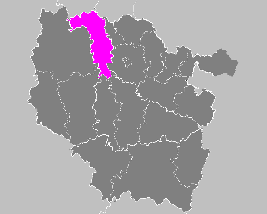 Maps of arrondissements and cantons of France: Arrondissement de Briey.PNG